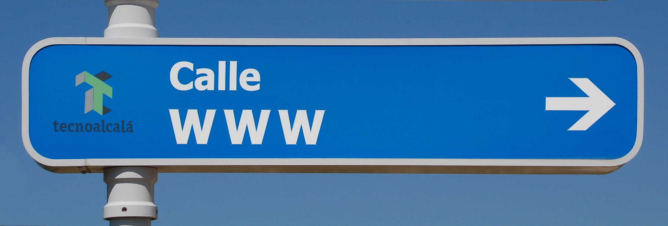 Street sign dedicated to World Wide Web (WWW), in Alcalá de Henares (Community of Madrid - Spain).